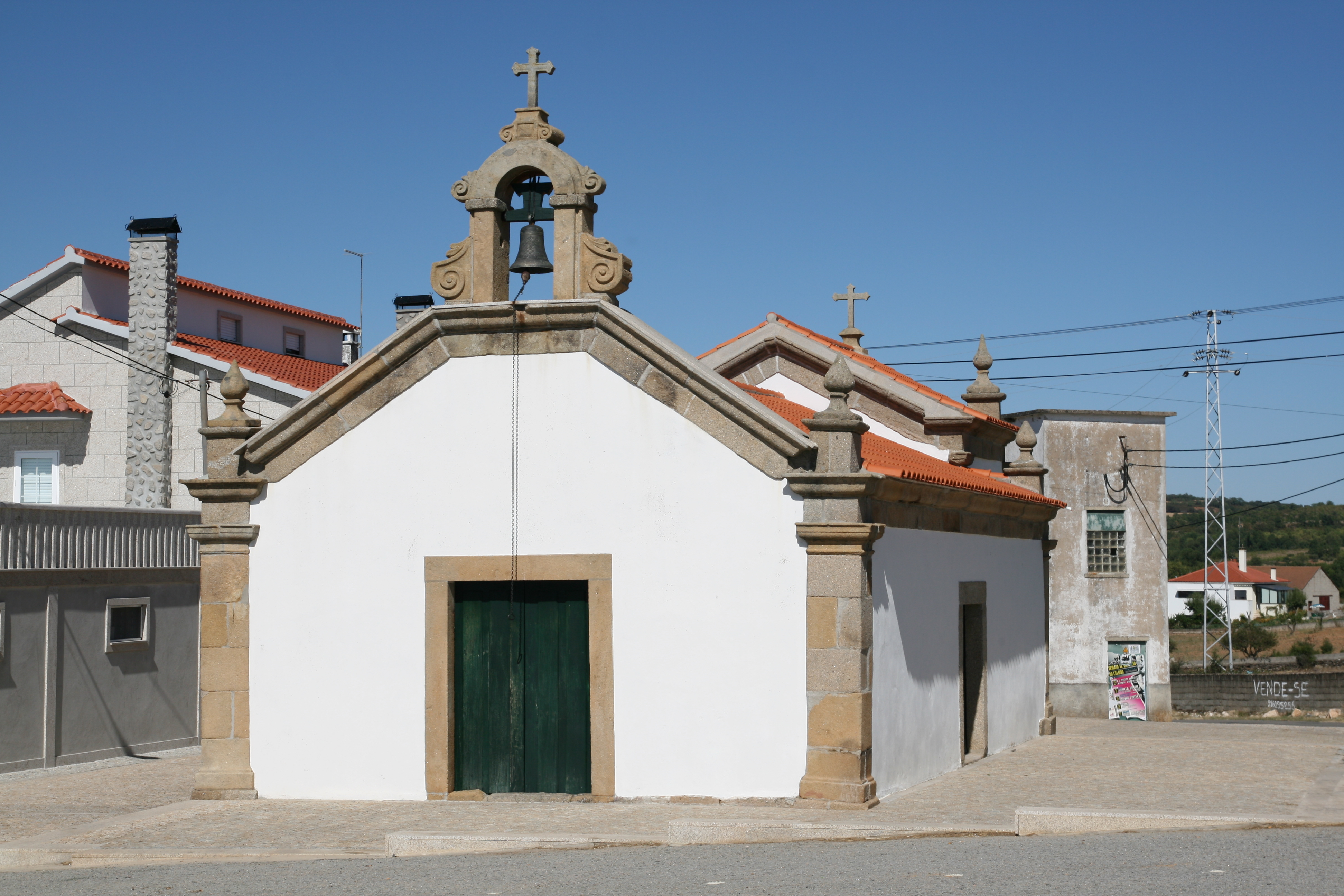 This building is classified as Sem protecção legal. This file was uploaded for Wiki Loves Monuments in Portugal with the unique identifier 97019028.